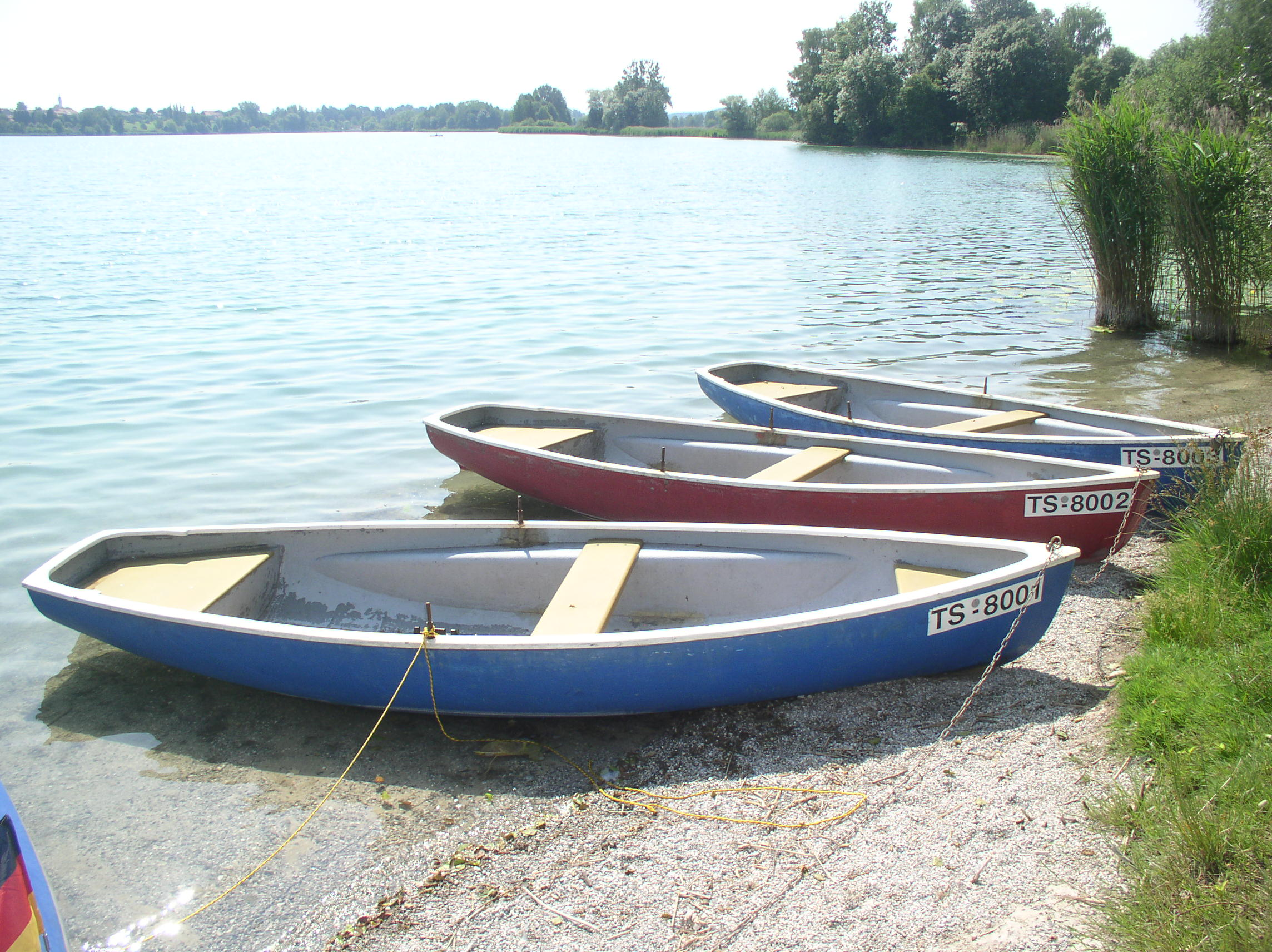 Boats painted red and blue. Tachinger See, Bavaria/ Germany